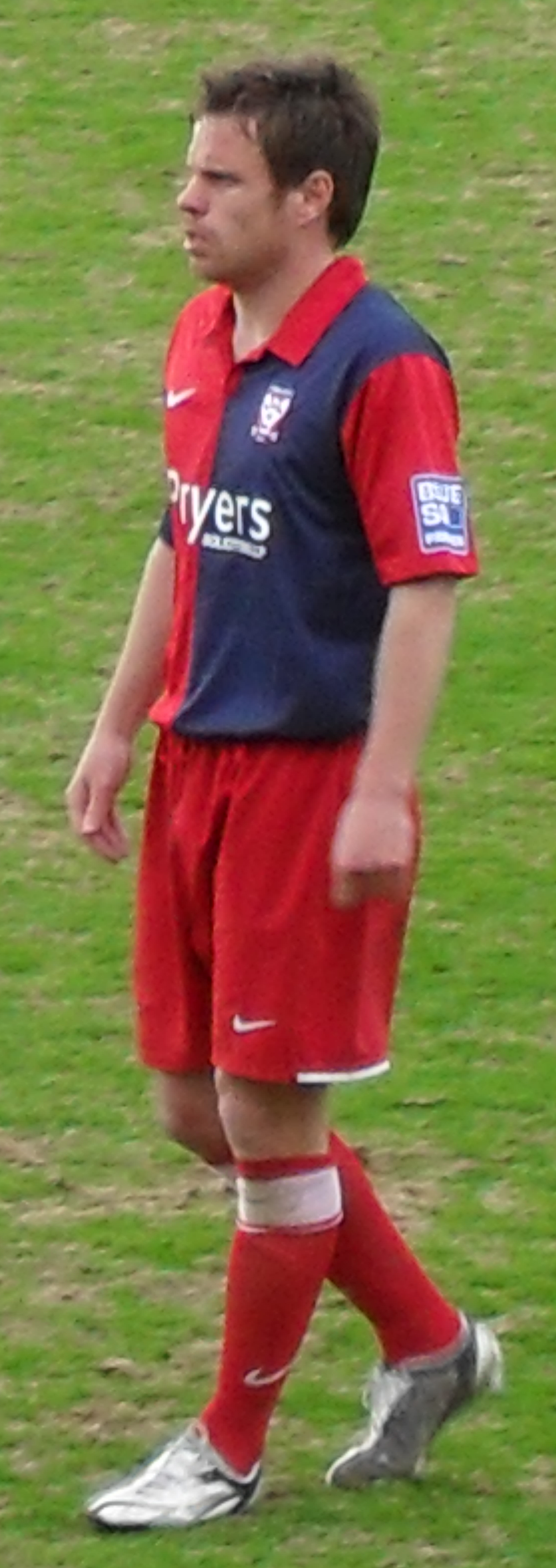 Paul Harsley